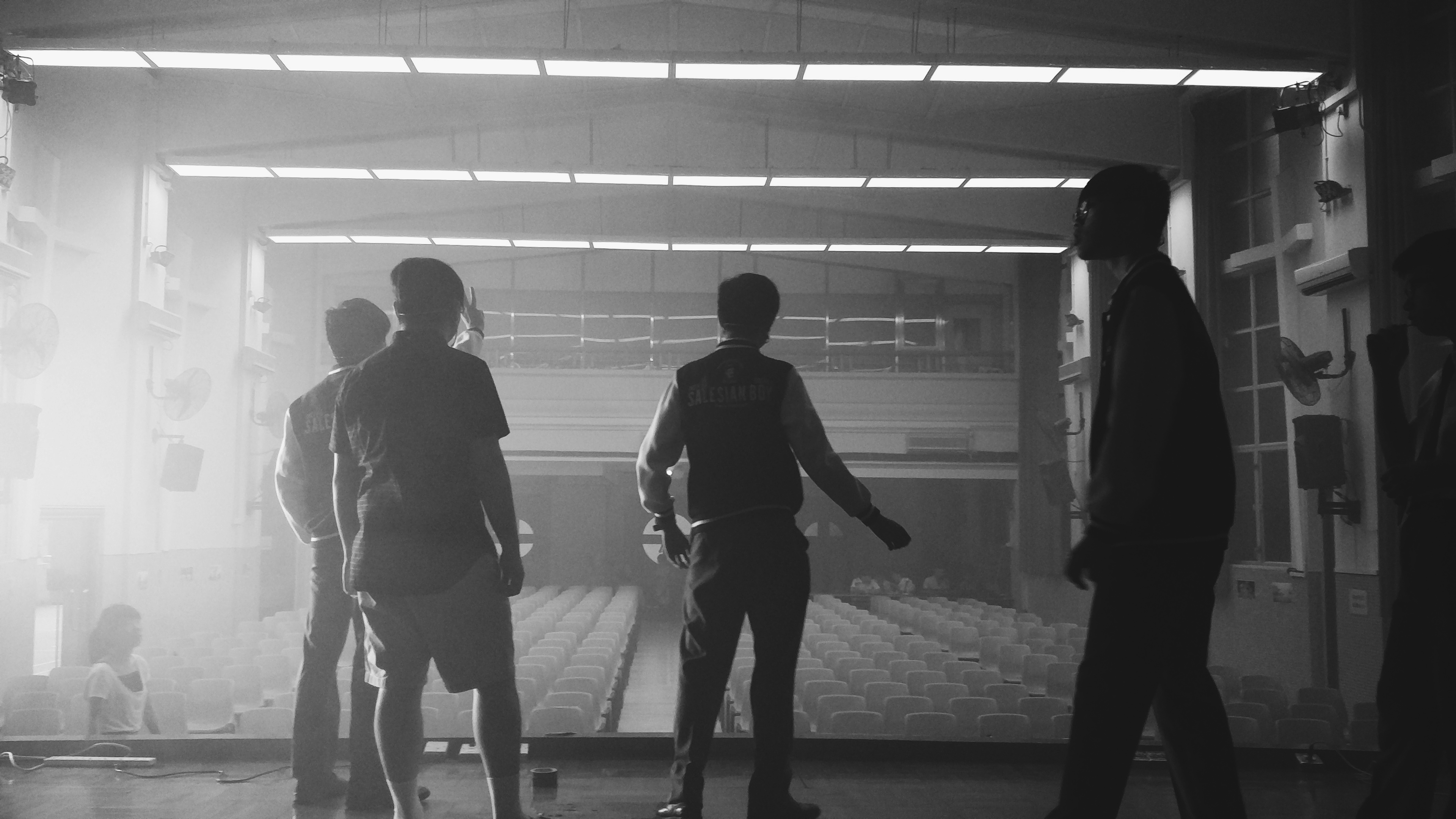 Salesian Musical Rehearsal